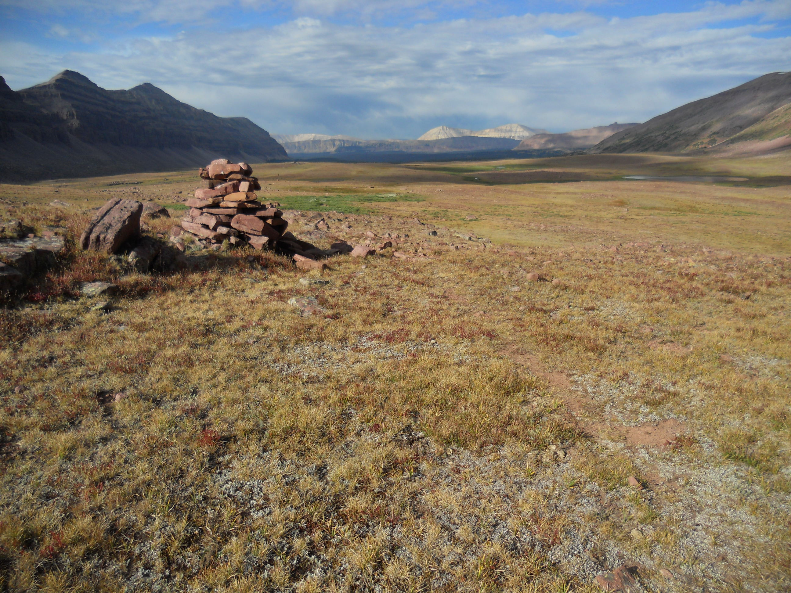 The Uinta Highline Trail in Oweep Basin. View is southwest down the basin. Elevation 11,600 ft (3,536 m).